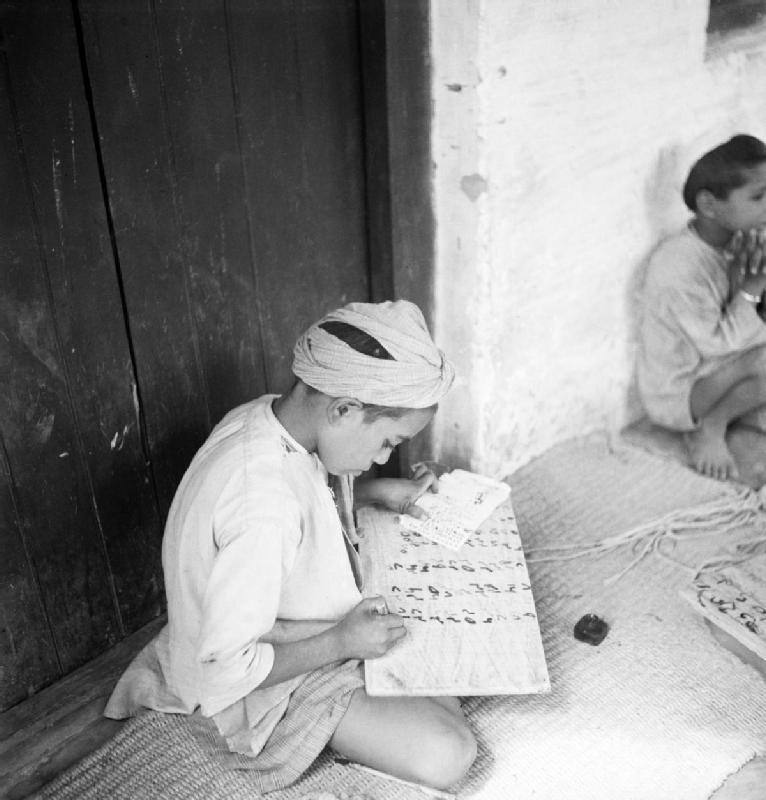 In a Indian Village One of the schoolchildren at work on his writing lesson